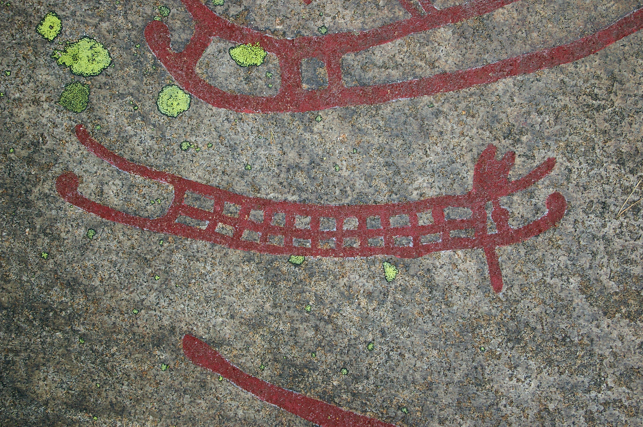 Rock carving area from the bronze age in the parish of Tanum, Bohuslän, a part of Sweden.